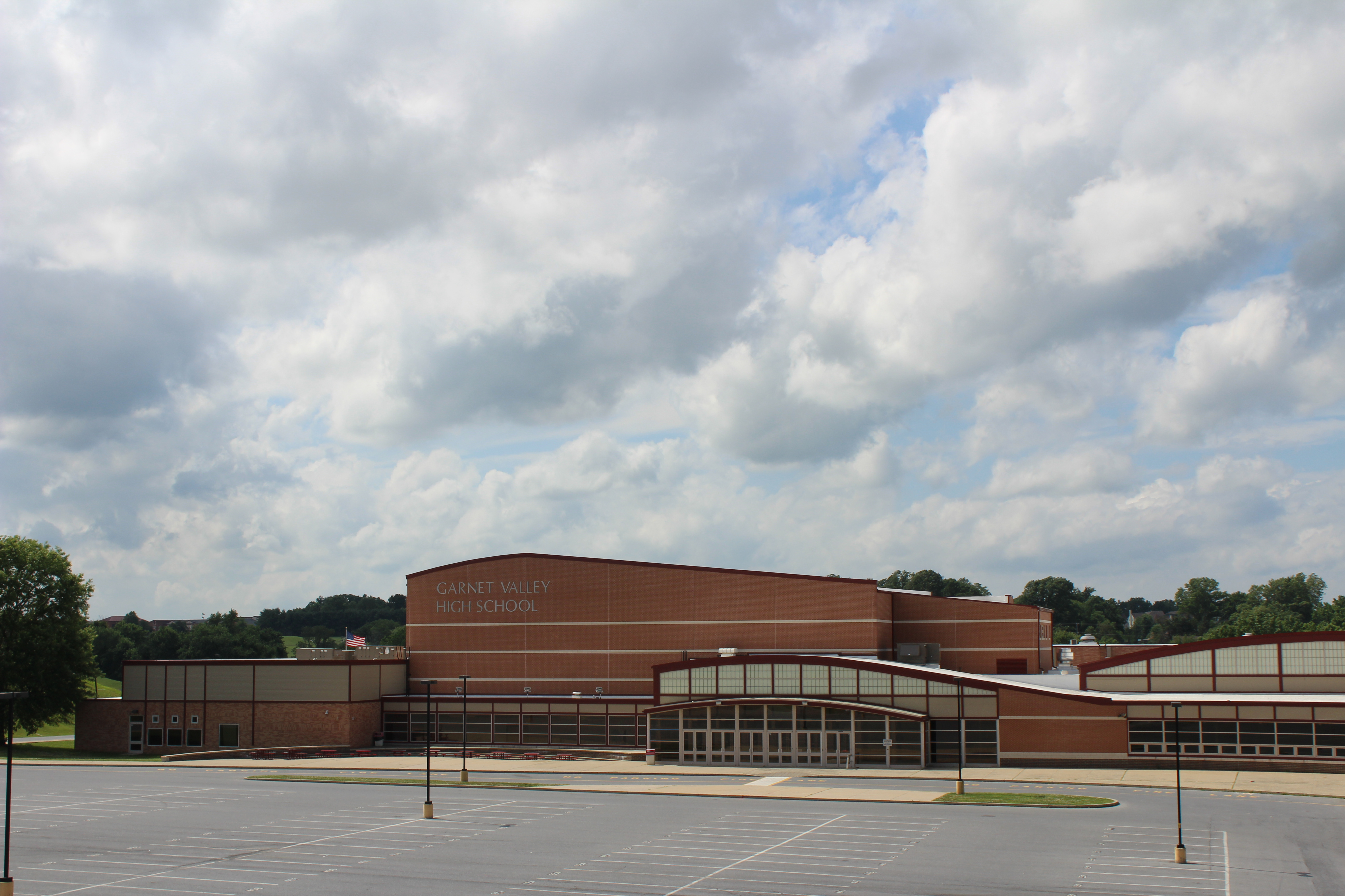 A picture of Garnet Valley High School from the football field overlooking the student parking lot toward the cafeteria entrance